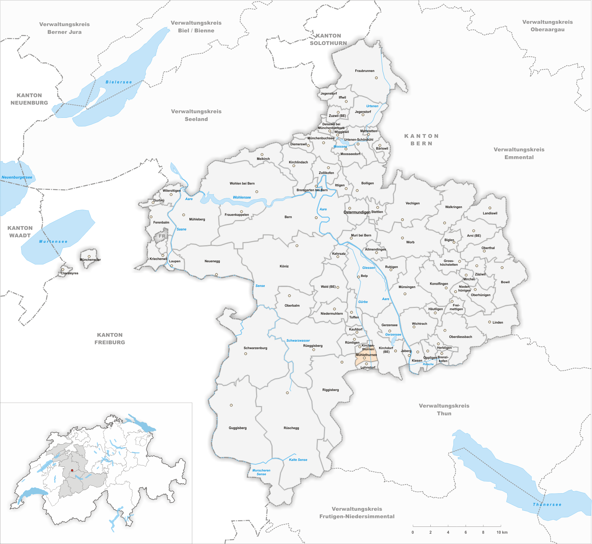 Municipality Mühlethurnen